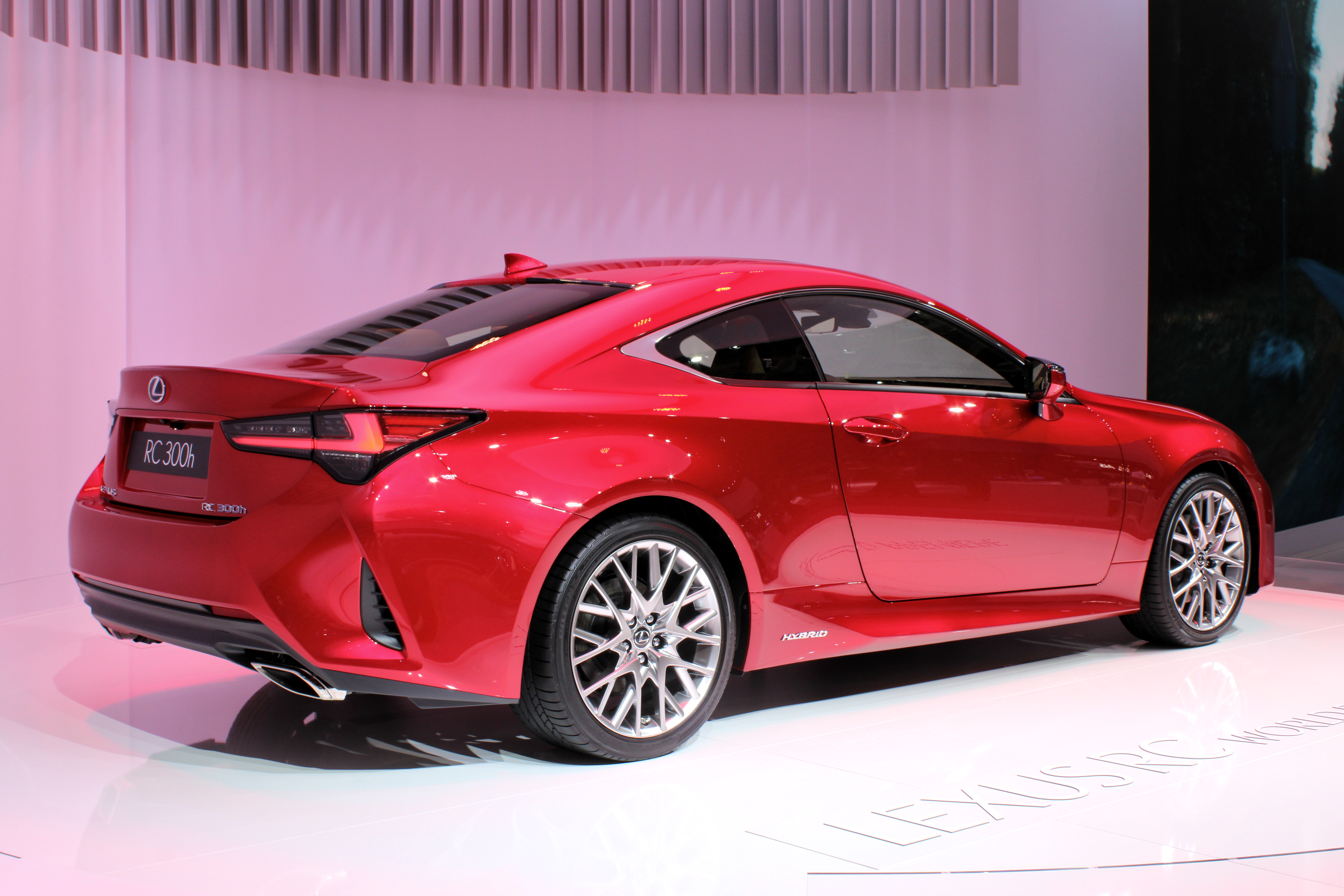 Lexus RC 300h at Paris Motor Show 2018